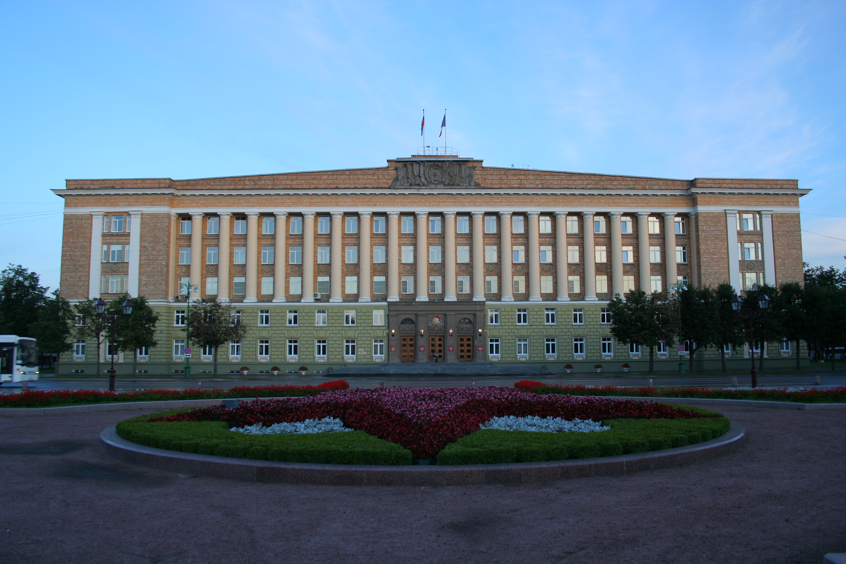 Views of Velikiy Novgorod. The building of the administration and duma of the Novgorod Oblast.